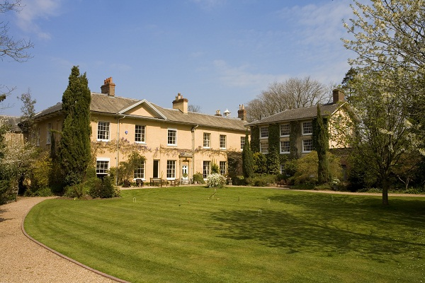 Exterior view of Tone Dale House, Somerset